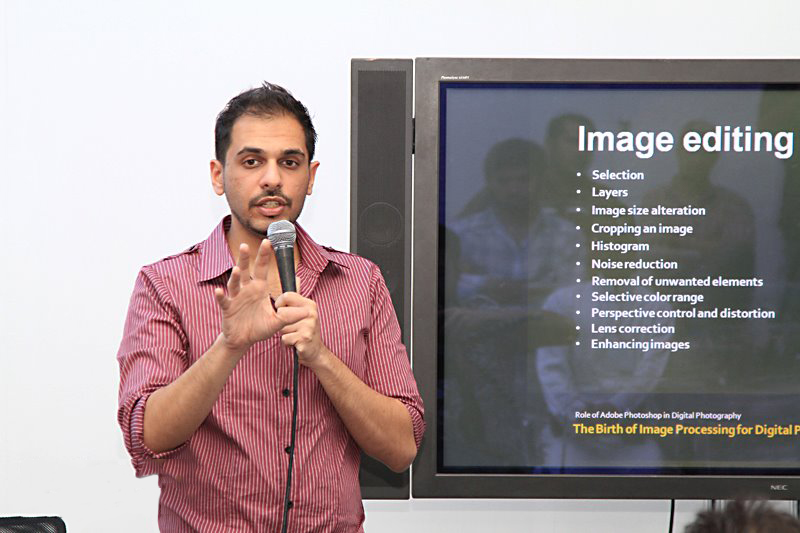 This picture was taken during Zeeshan Shah's workshop at Saudi Aramco